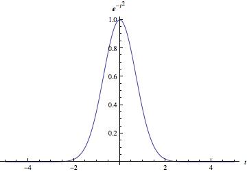 Original